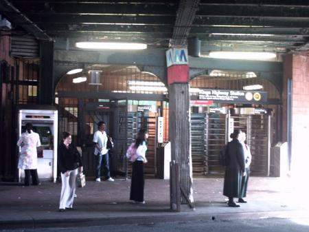 Entrance to Kings Highway station on the BMT Brighton Line from the north side, which is High Entry-Exit at all times. The Arts for Transit instillation, Kings Highway Heiroglyphics" can be seen behind the turnstiles.